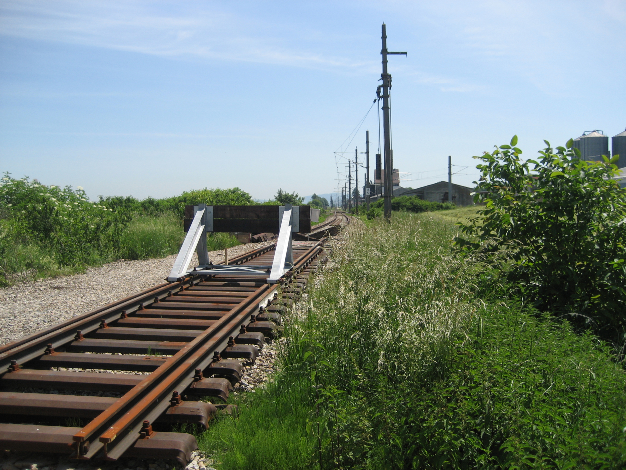 Train station in Michelhausen, Lower Austria